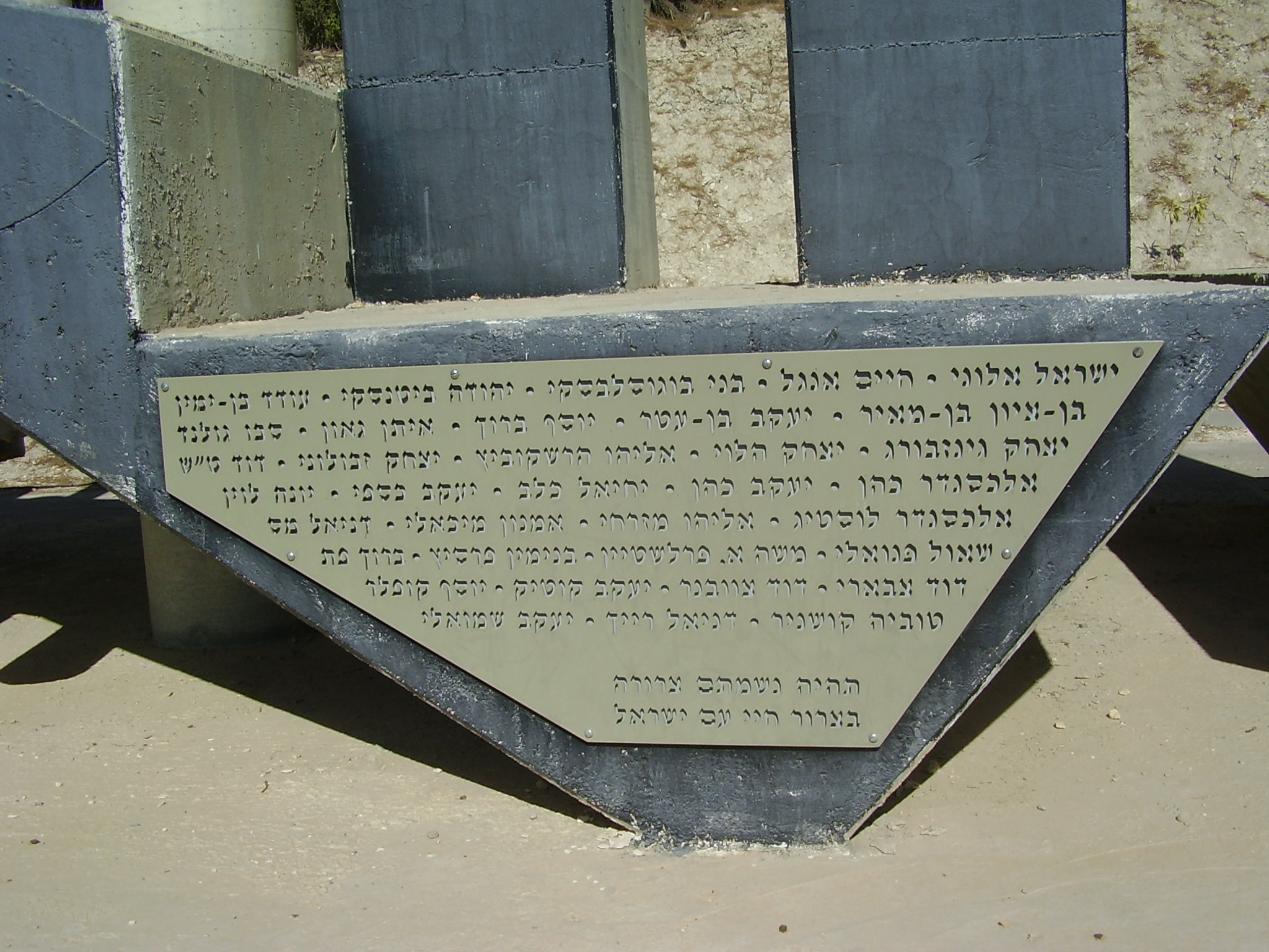 the convoy of 35 memorial near kibbutz netiv halamed-hey.